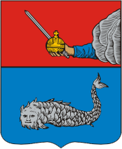 Kola (Murmansk oblast), coat of arms (1781)